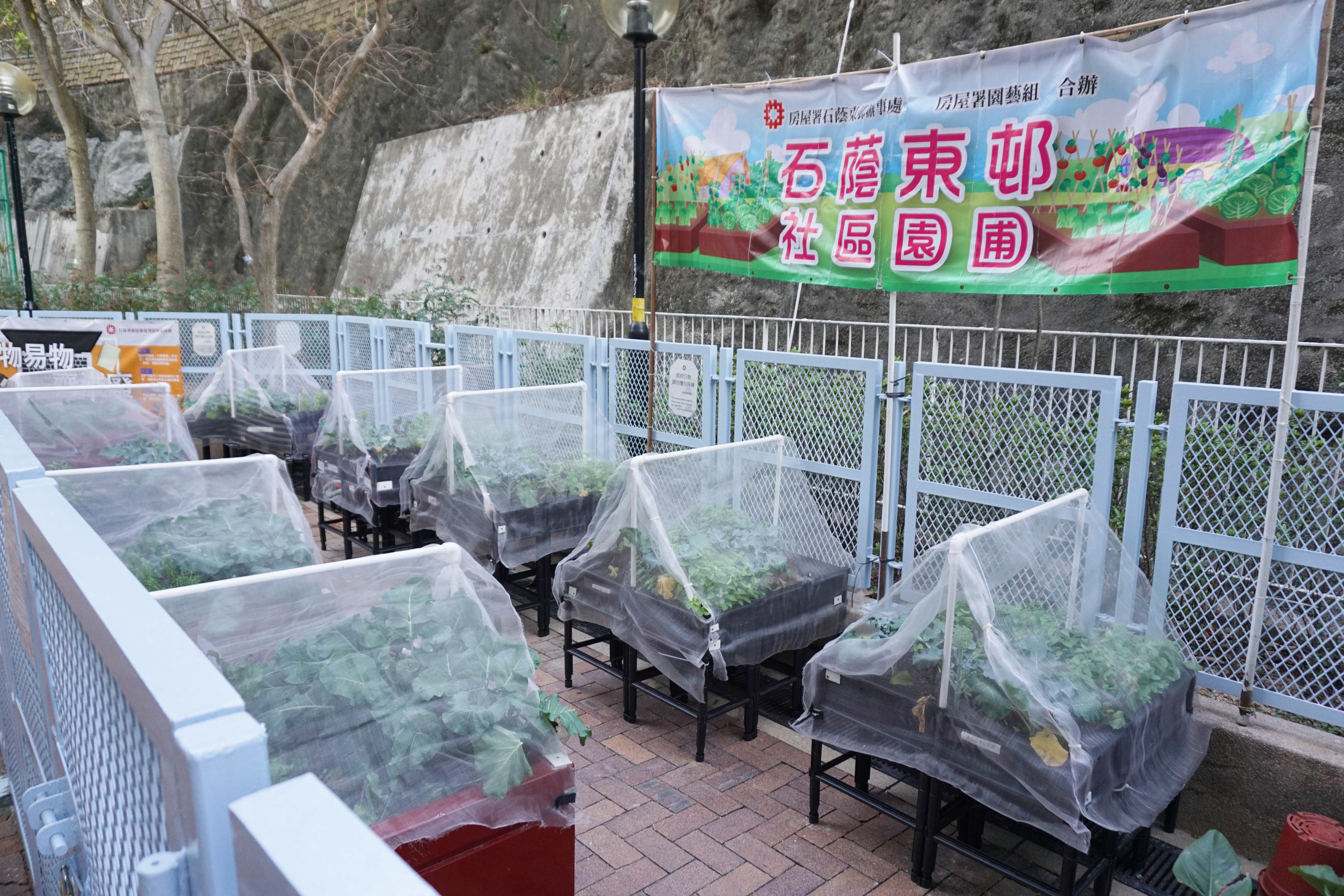 Shek Yam East Estate in Shek Yam, Hong Kong.